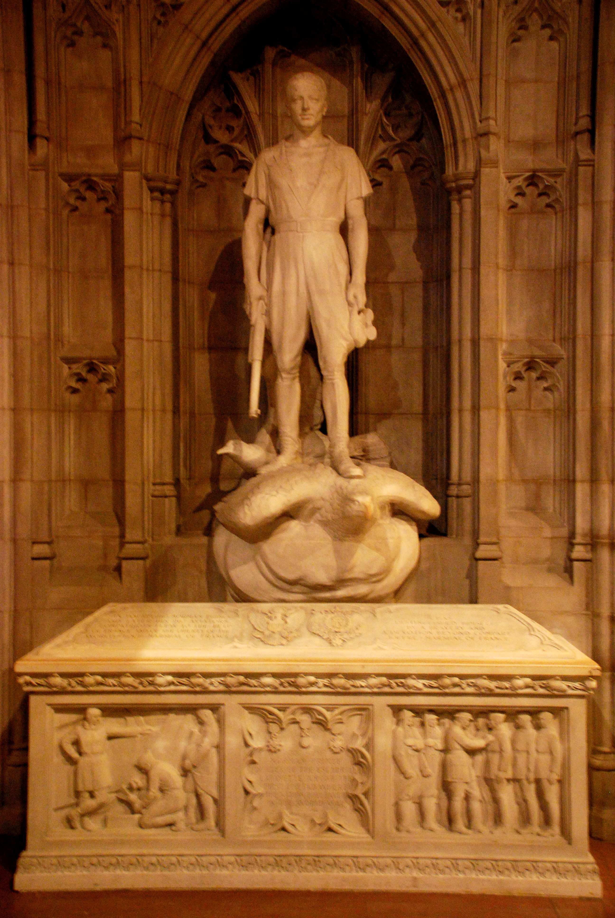 Statute of Norman Prince in the National Cathedral